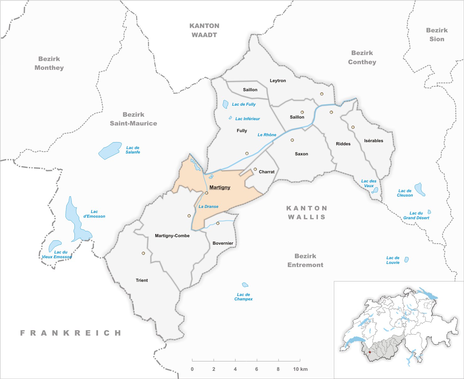 Municipality Martigny